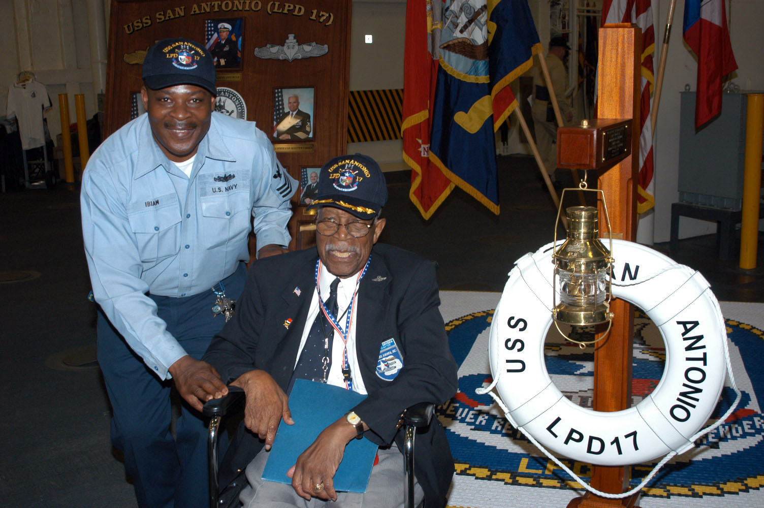 Port Everglades, Fla. (May 4, 2006) - Ships Serviceman Vincent Ibiam, left, poses for a photo opportunity with visiting Tuskegee Airman retired Lt. Col. Charles Dryden, Sr., during Recognition Day Fleet Week USA events aboard USS San Antonio (LPD 17). Nearly 3,000 Sailors are participating in this year's fleet week taking in the local sites while sampling South Florida's local culture. U.S. Navy photo by Photographer's Mate 2nd Class Donna Liggins (RELEASED)